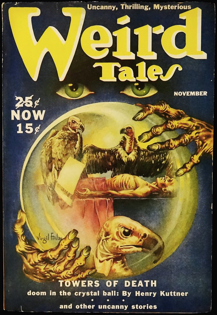 Cover of the pulp magazine Weird Tales (November 1939, vol. 34, no. 5) featuring Towers of Death by Henry Kuttner. Cover art by Virgil Finlay.